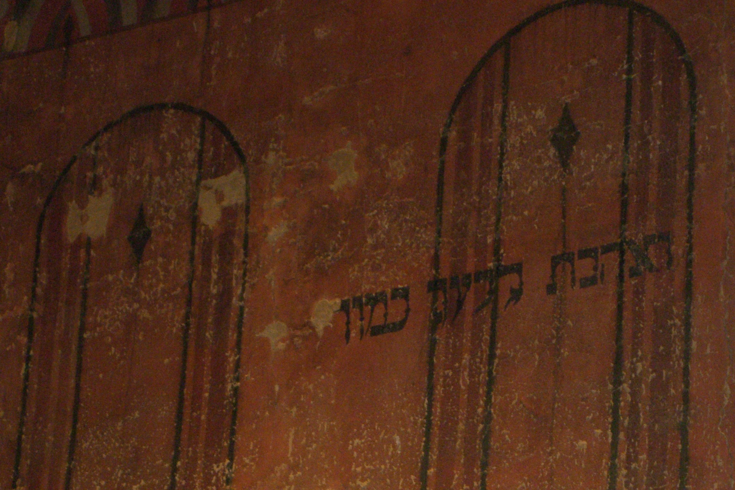 The Landsynagoge Roth